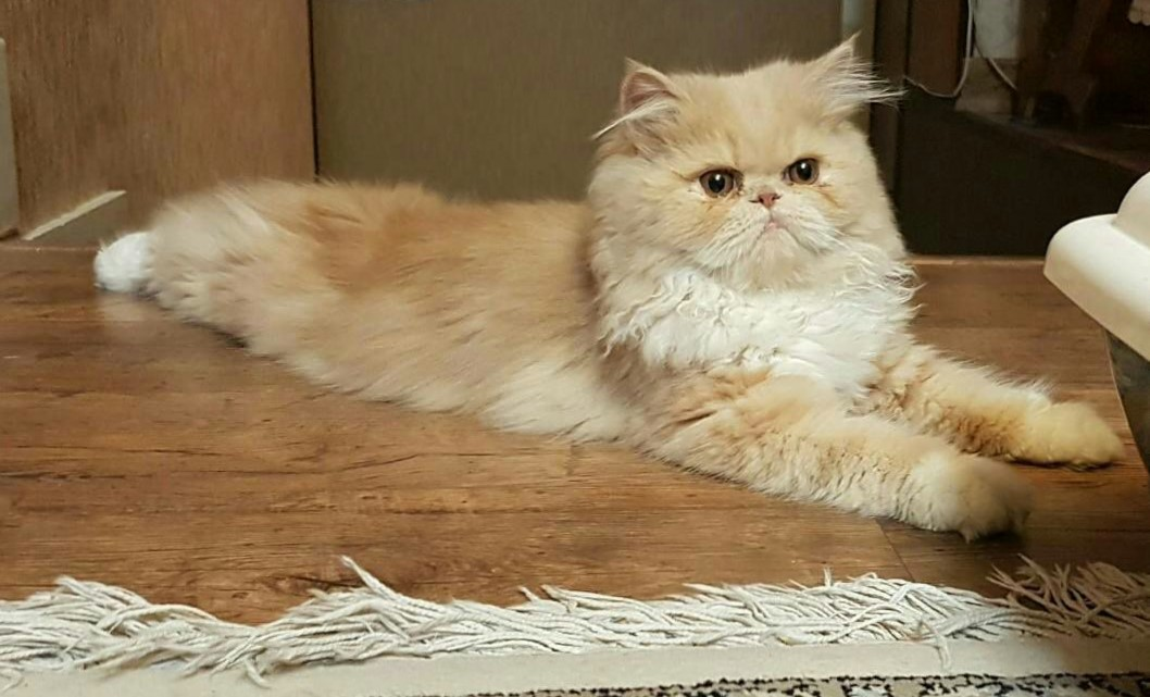 Persian Cat